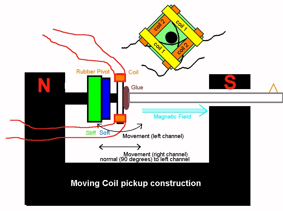 Diagram illustrating the fundamental construction of a modern moving coil phono cartridige.